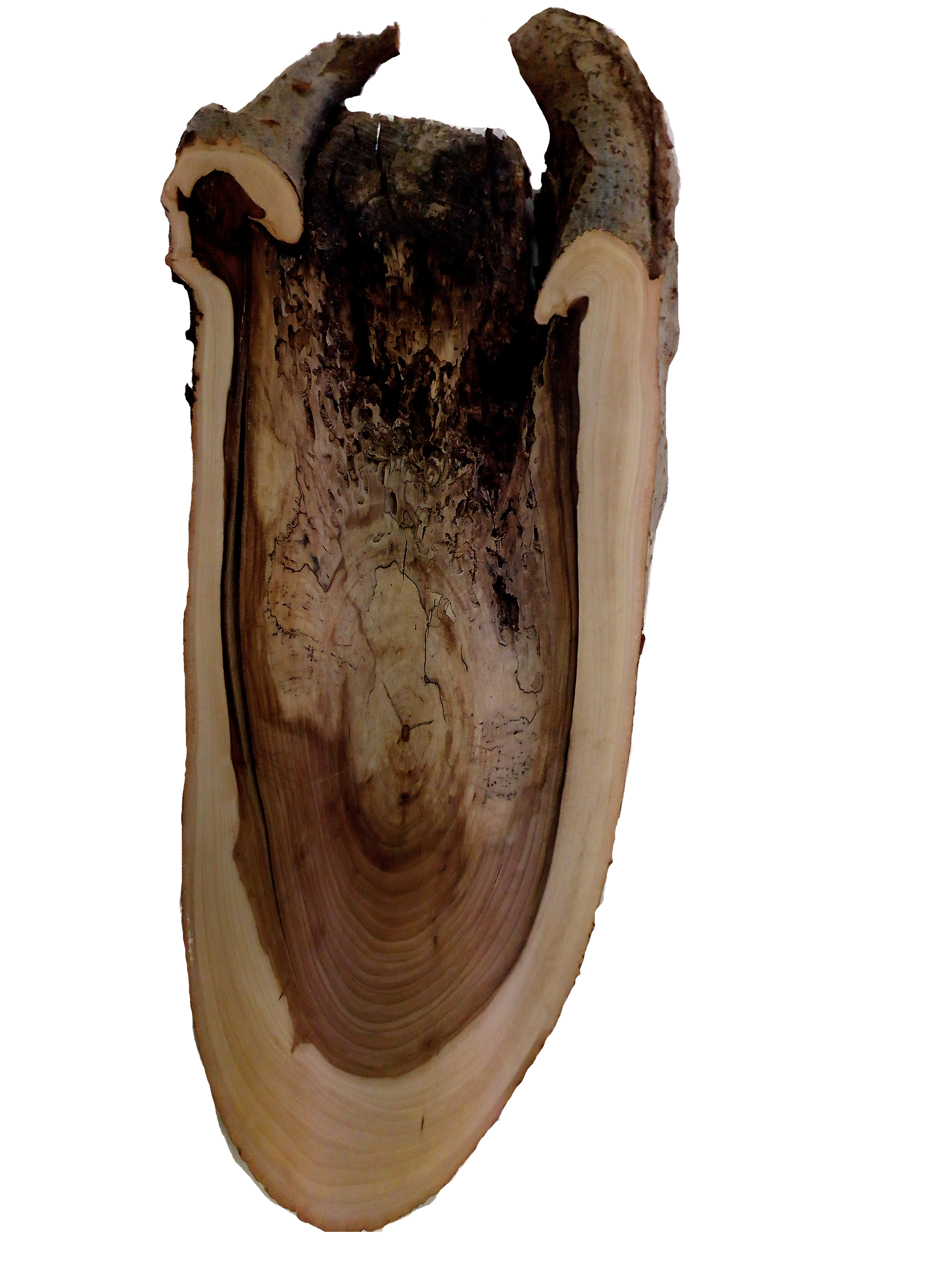 Failed overflow - Phase 4 of the CODIT-principle not achieved, the fungus has spread inside of the tree.